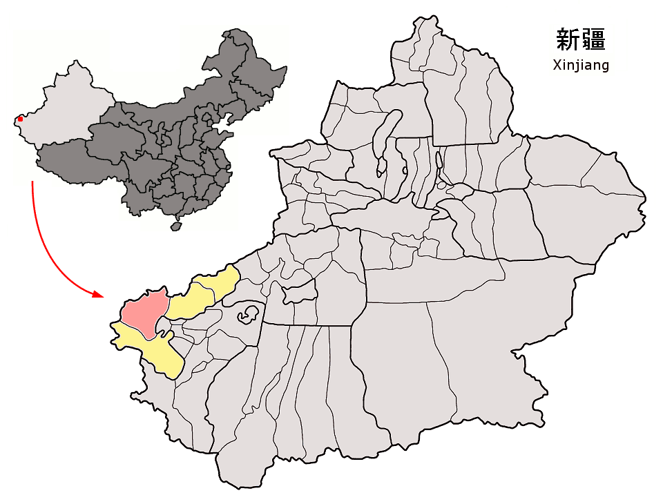 Location of Ulugqat County (pink) and Kizilsu Prefecture (yellow) within Xinjiang autonomous region of China Map drawn in september 2007 using various sources, mainly : Xinjiang Uygur autonomous region administrative regions GIS data: 1:1M, County level, 1990 Xinjiang Counties map from